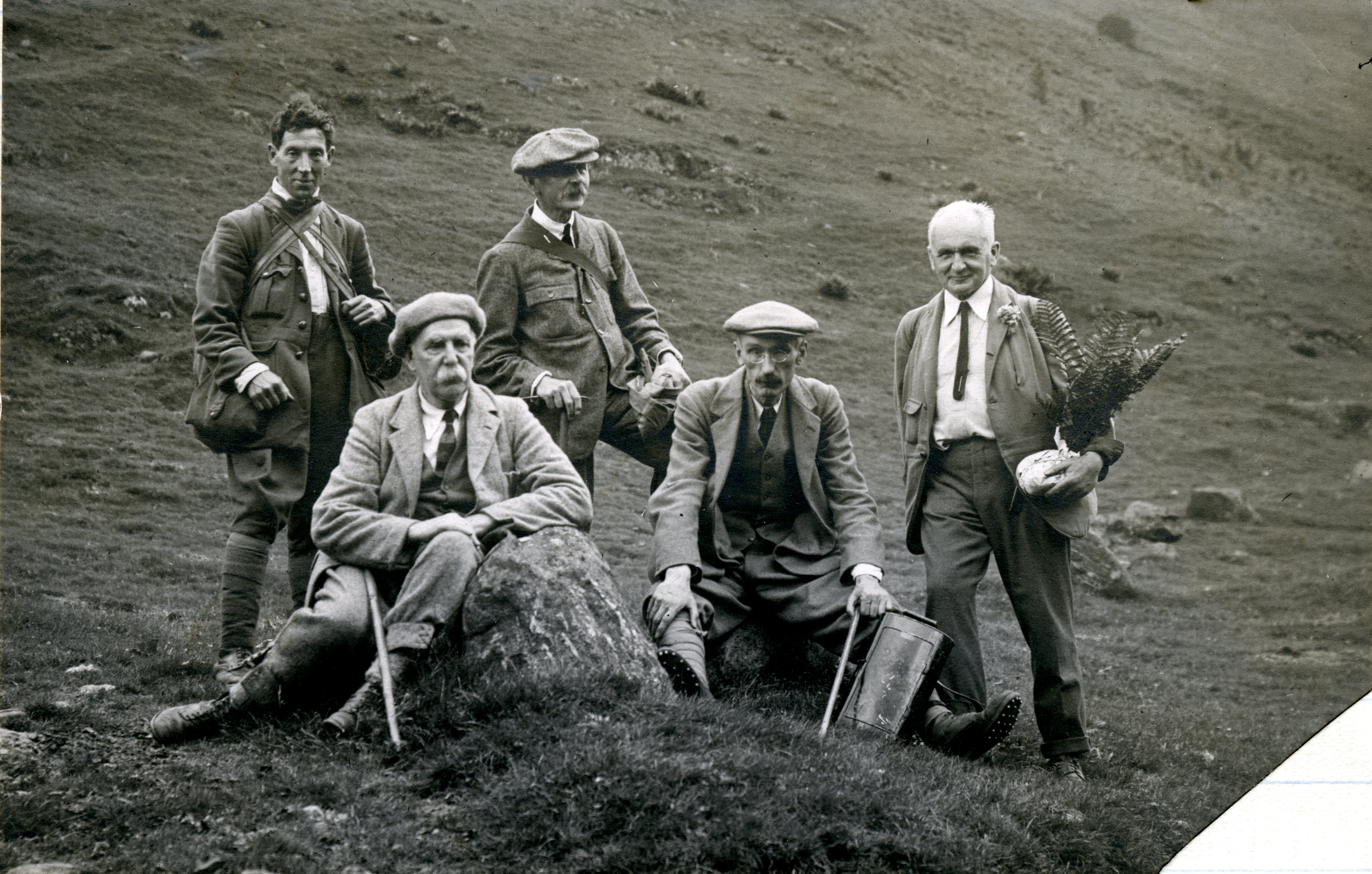 Robert Moyes Adam (L) on a Scottish Alpine Botanical Club outing c.1929 including Regius Keeper William Wright Smith. (2nd from R)